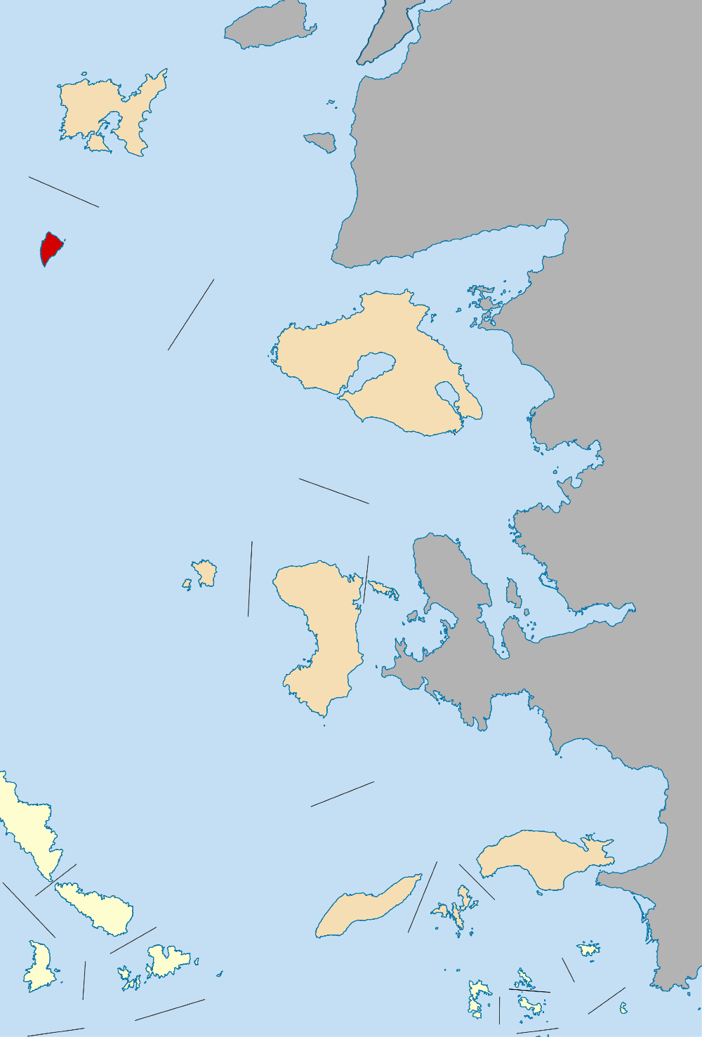 Locator map for Agios Efstratios municipality in Greek region North Aegean (2011)